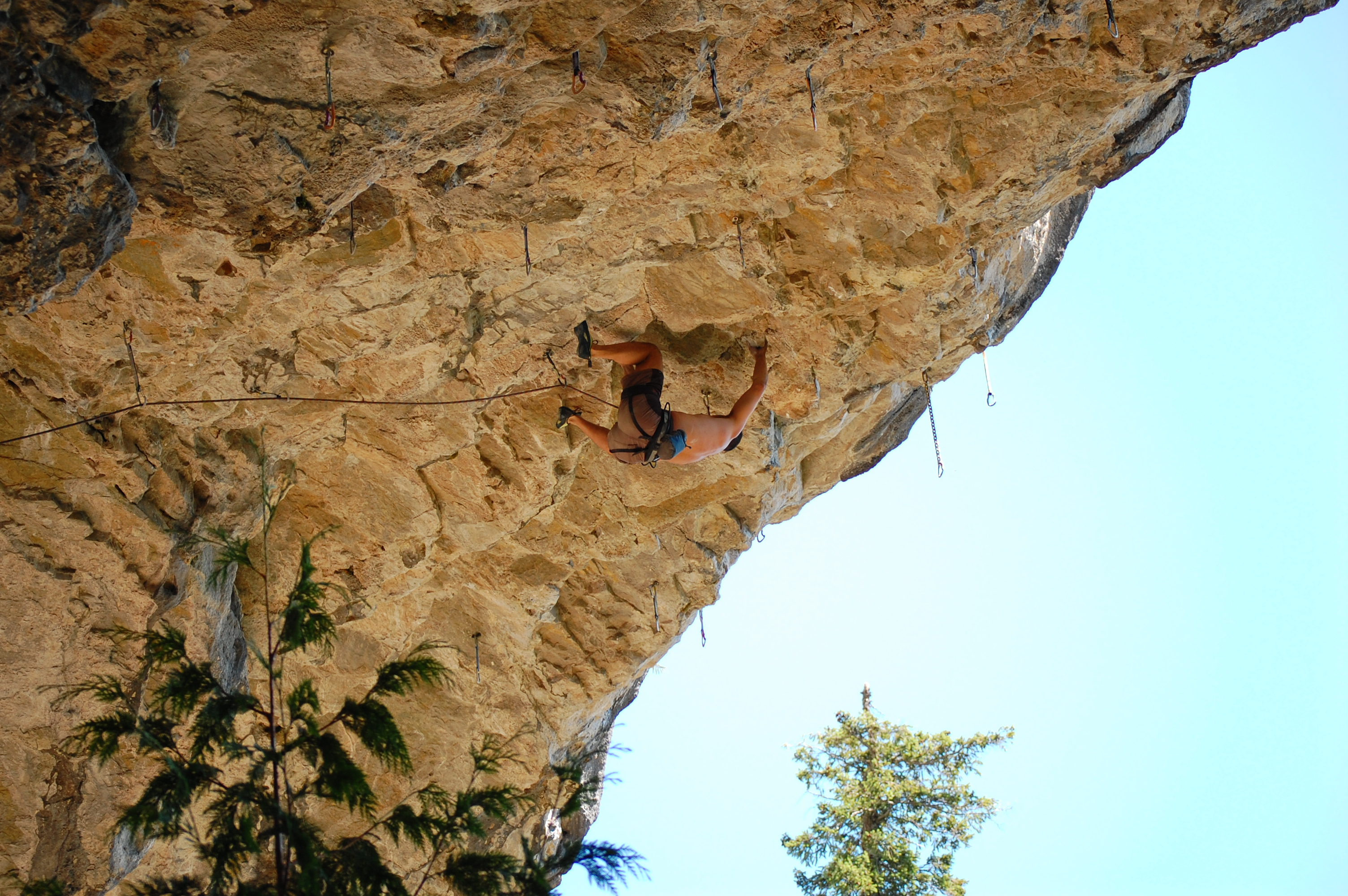 Climbing a roof